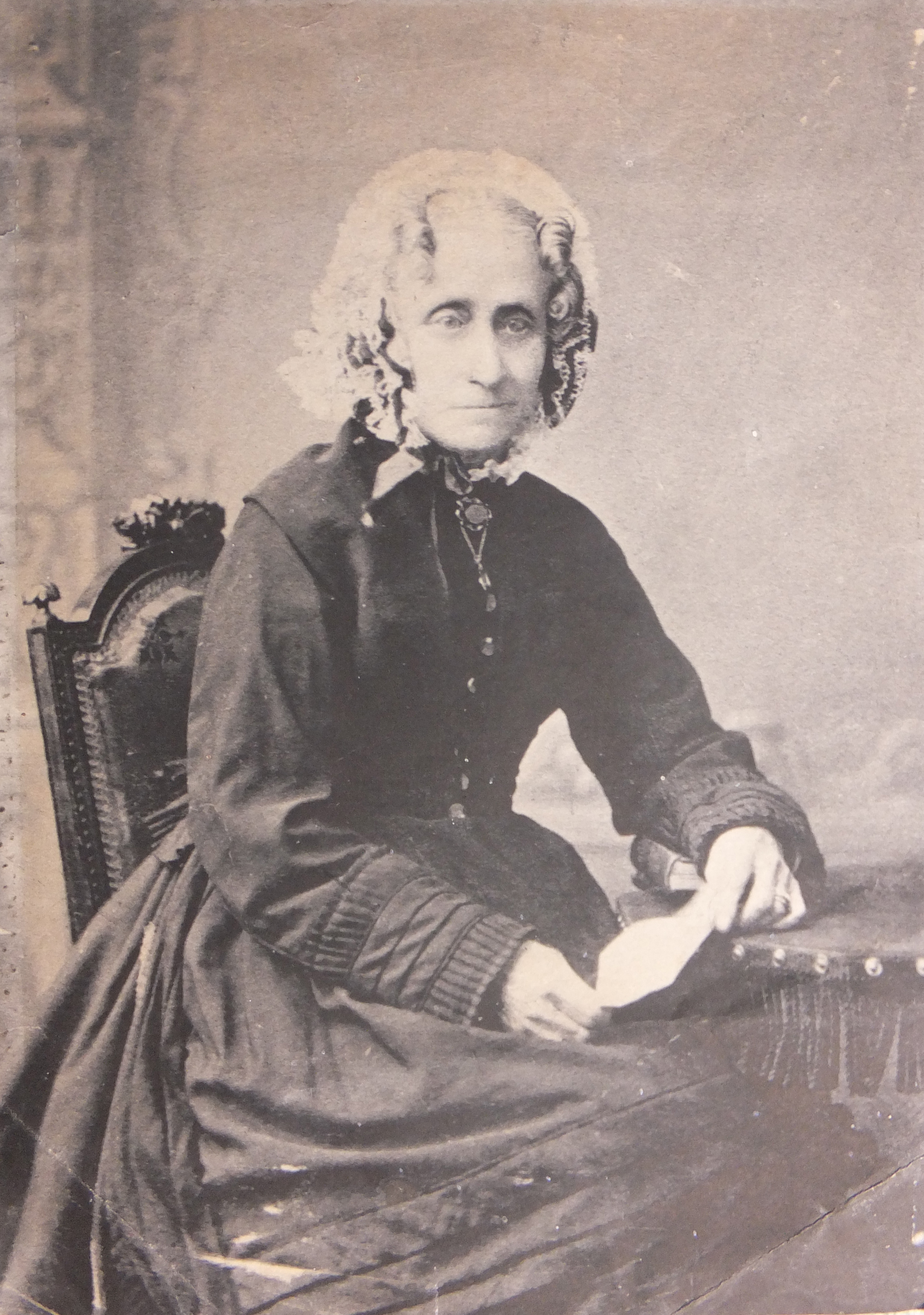 A photograph of Horatia Ward née Nelson (1801-1881) from the Style/Ward Family collection. According to Winifred Gérin, in her 1981 biography of Horatia, this was the last photograph taken of Horatia. Horatia was the daughter of Admiral Lord Horatio Nelson and Emma, Lady Hamilton.